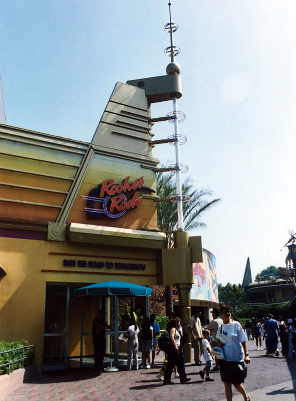 Rocket Rods entrance 1998 Disneyland Taken by Ellen Levy Finch (User:Elf)